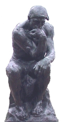 A copy of Auguste Rodin's The Thinker at the Kyoto National Museum in Kyoto, Japan.